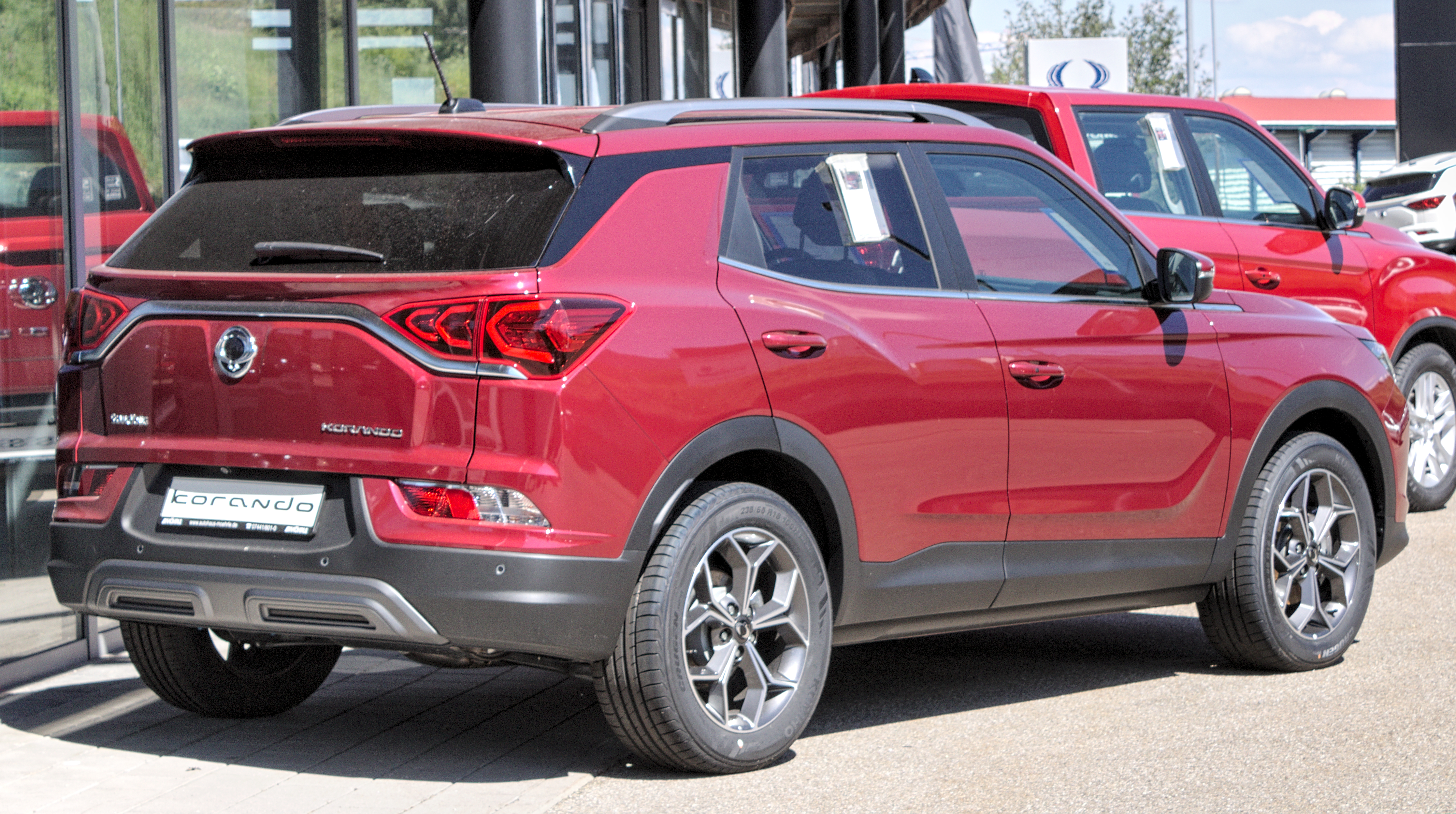 Ssangyong_Korando_(4th_generation) in Freudenstadt